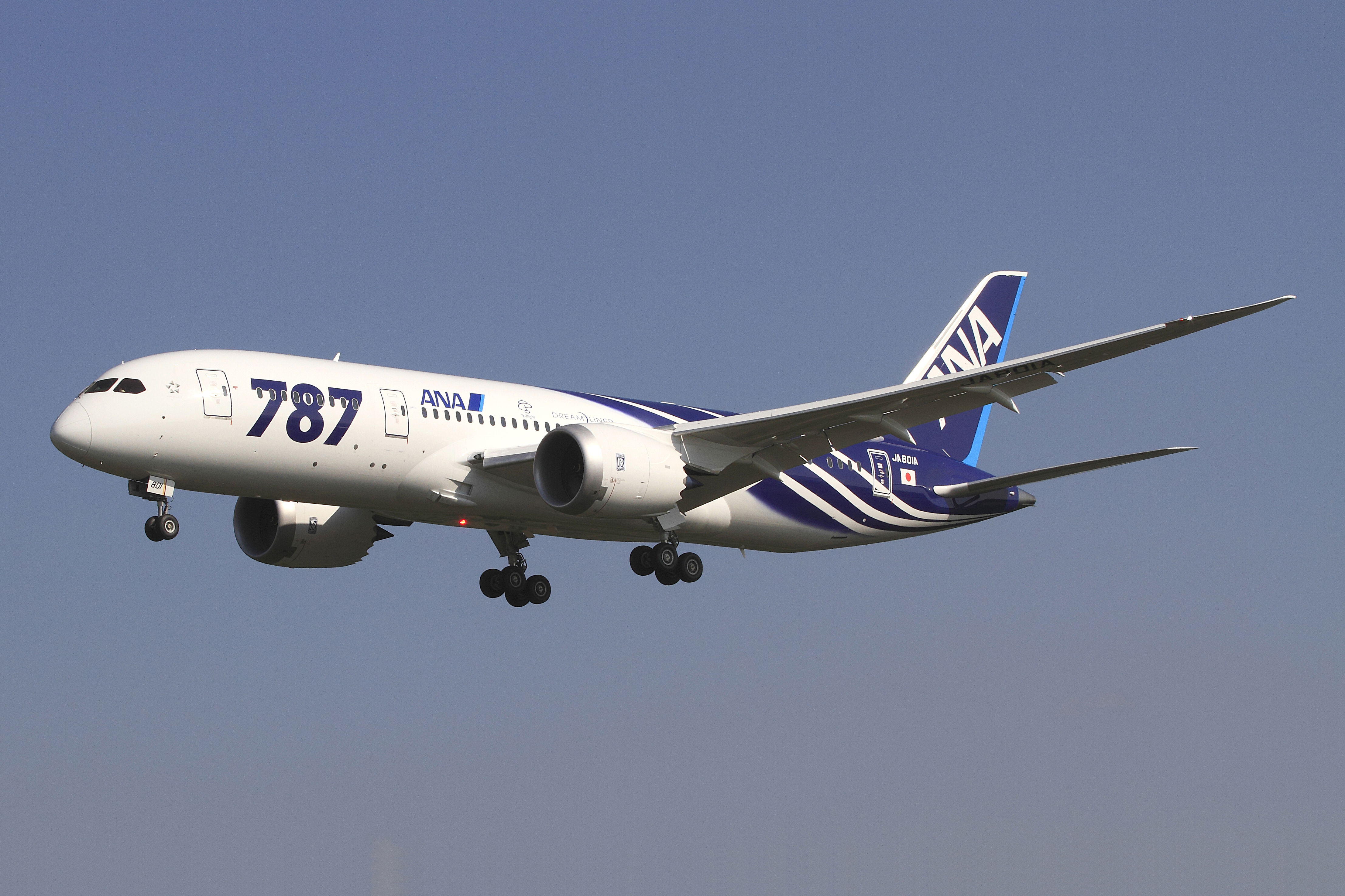 All Nippon Airways Boeing 787-8 (JA801A) at Okayama AirportGaeilge: Boeing 787-8 ó All Nippon Airways ag Aerfort Okayama sa tSeapáin